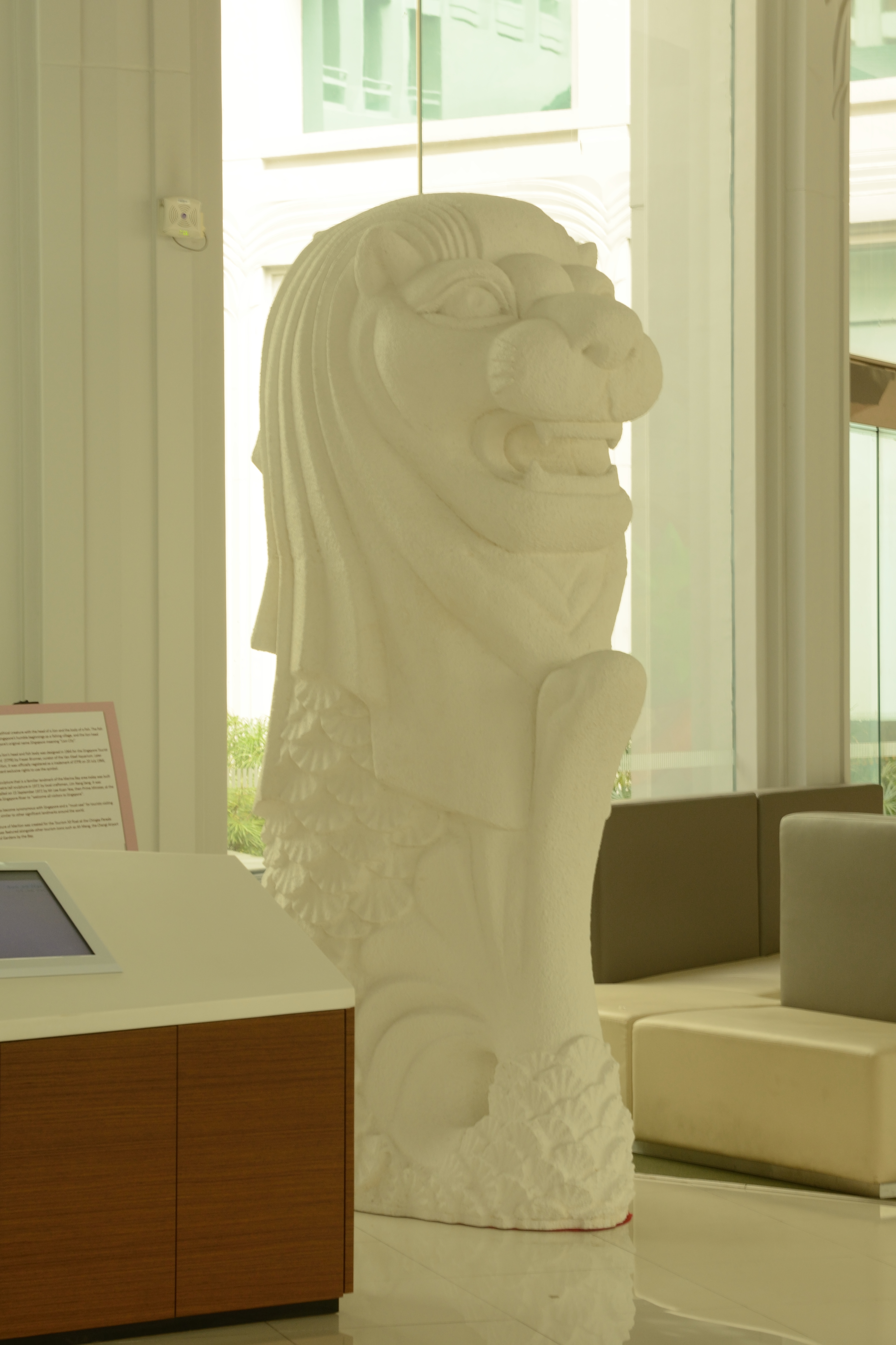 A Merlion statue in Tourism Court, the headquarters of the Singapore Tourism Board.